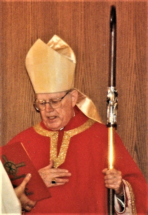 Bishop Gerald F. O'Keefe of the Roman Catholic Diocese of Davenport.